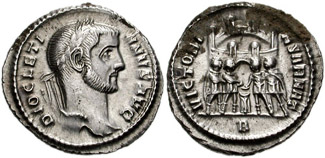 DIOCLETIAN. 284-305 AD. AR Argenteus (20mm, 2.97 gm). Rome mint. Struck circa 295-297 AD. Laureate head right VICTORI-A SARMAT, the four tetrarchs sacrificing before campgate with six turrets; B. RIC VI 37a; Jelocnik 55 var.; RSC 488g. Good VF, reverse encrustation.